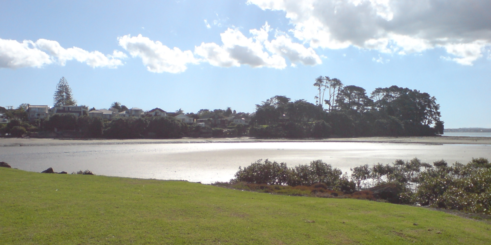 Point Chevalier suburb in Auckland City, New Zealand. Taken from Meola Reef.